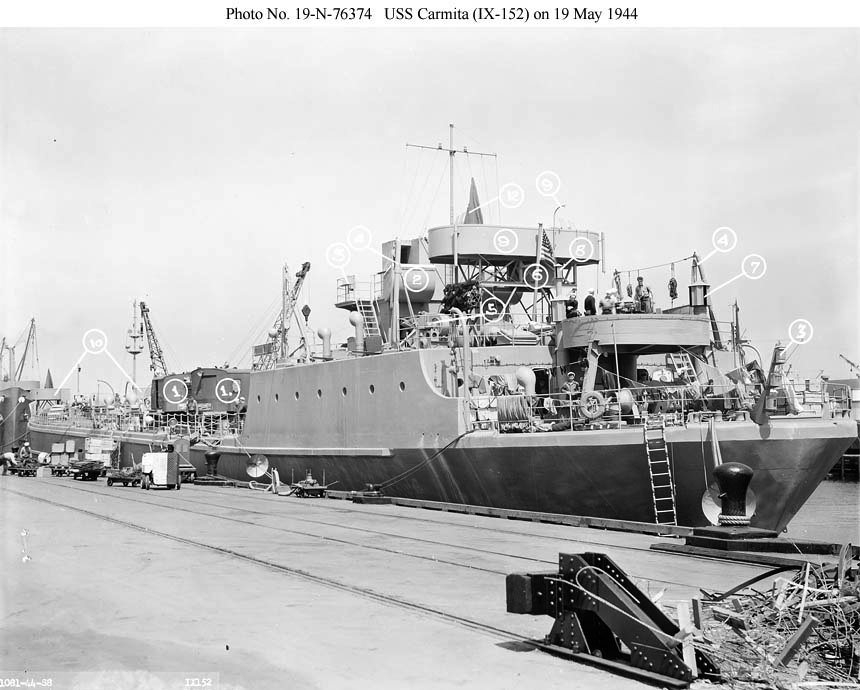 Carmita (IX-152) at San Francisco, 19 May 1944, a week after being placed in service. The numbered alterations include two crawler cranes, raised tubs for two 20mm guns forward, and a tub for another pair aft.